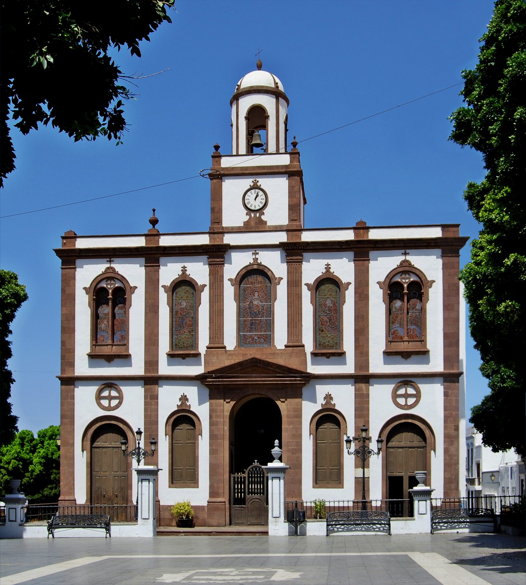 The Church Iglesia de la Concepción in Agaete, Gran Canaria. Perspective corrected with ShiftN.